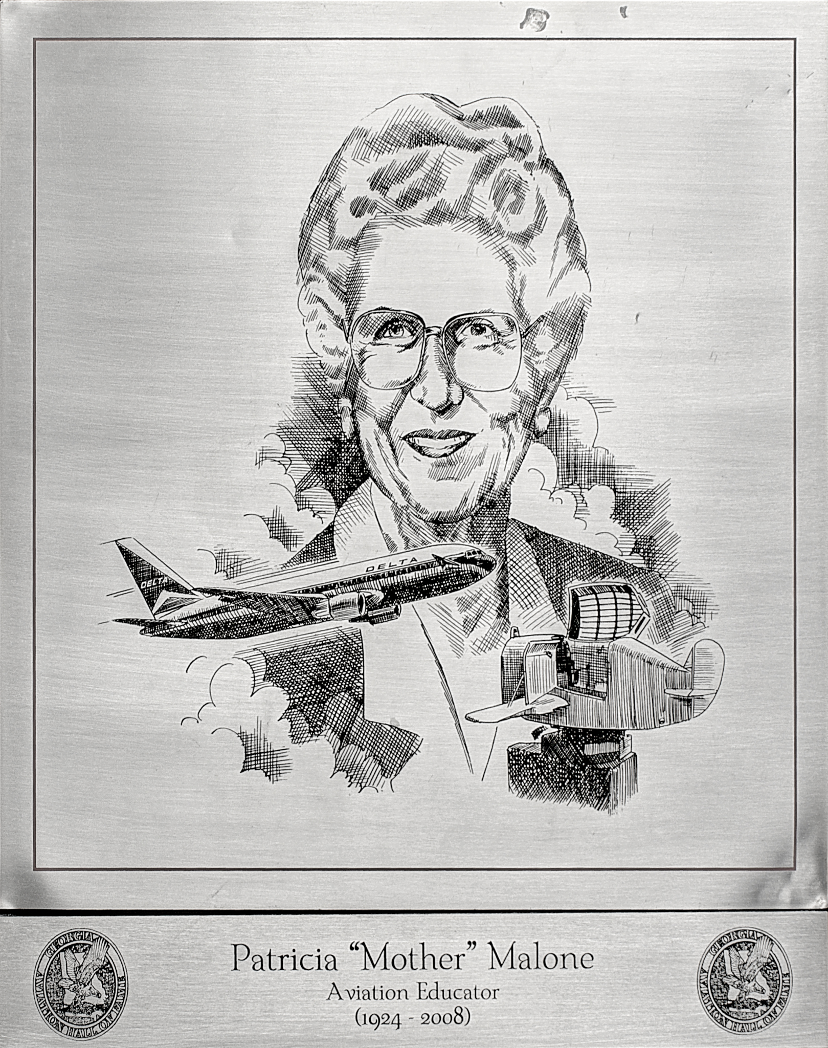 Patrica "Mother" Malone (1924 - 2008)